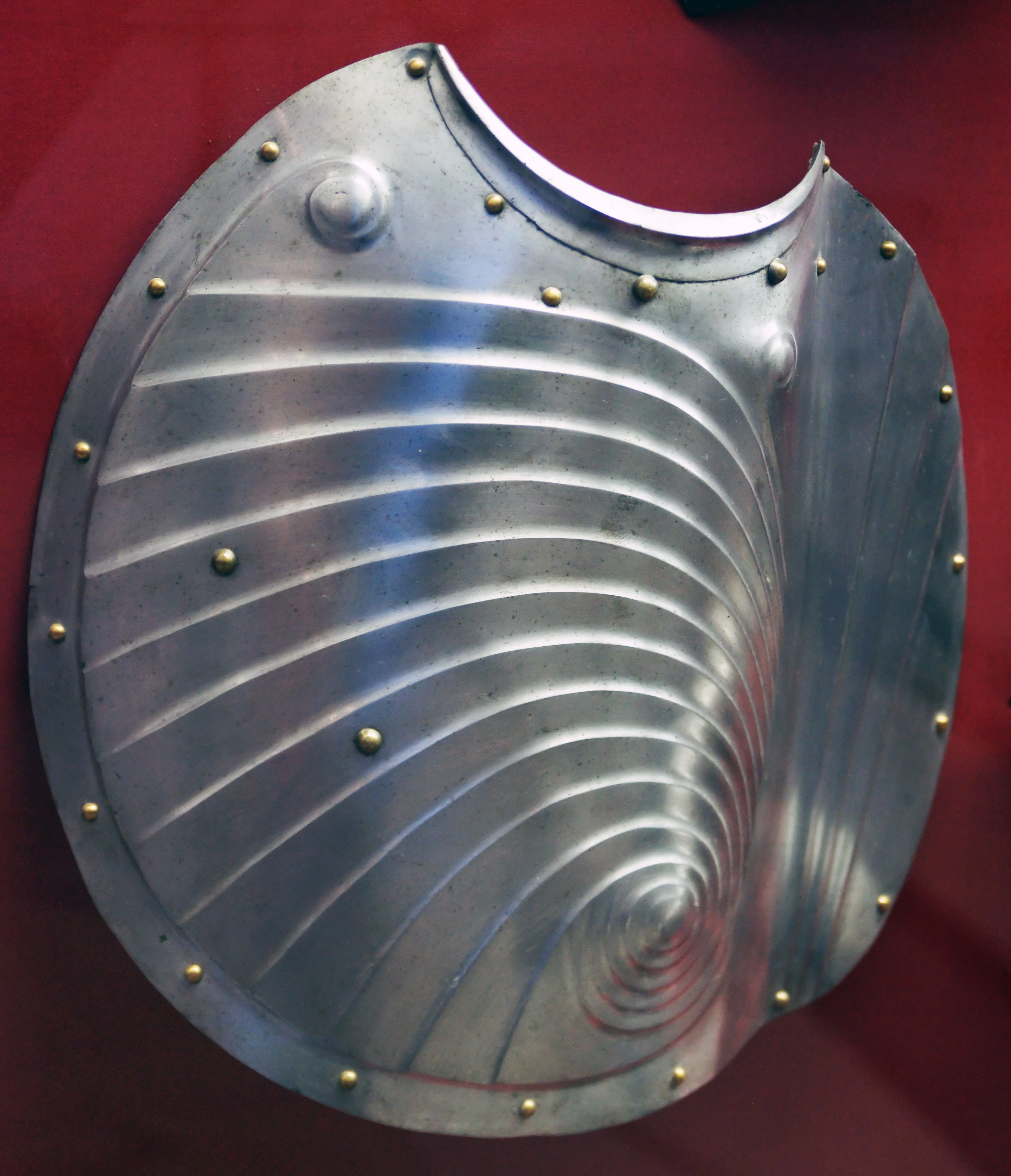 Thigh shield (Streiftartsche) of Emperor Maximilian I.